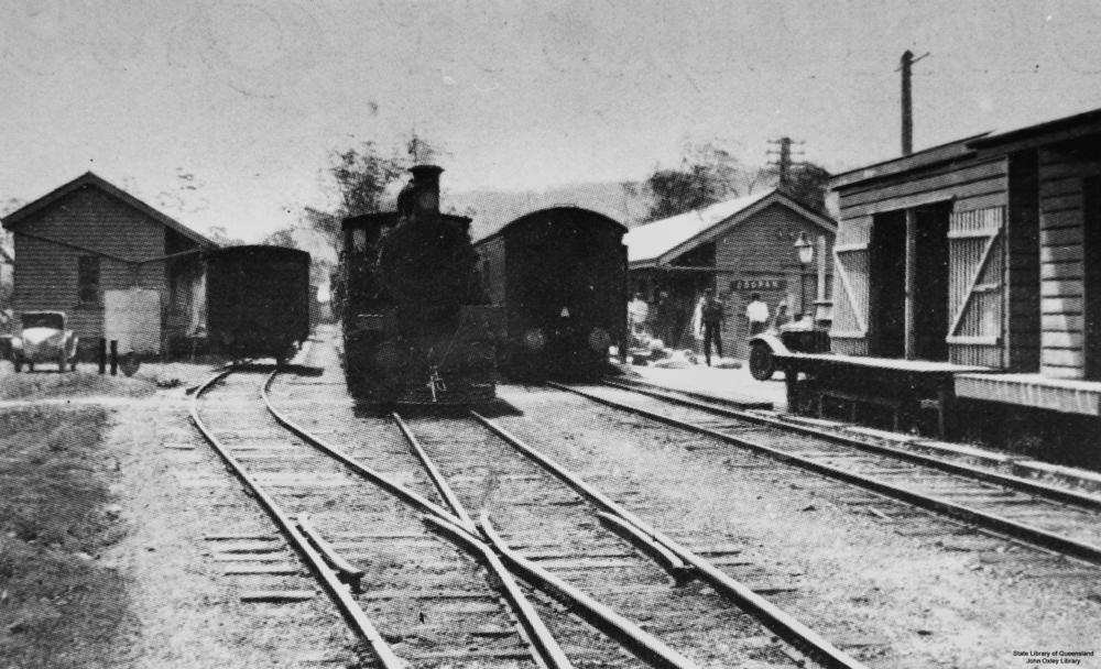 Cooran Railway Station, 1931 Goods and steam trains at Cooran railway station. Three wooden railway buildings are shown together with two early model cars. North and south rail tracks are laid on exposed wooden railway sleepers.